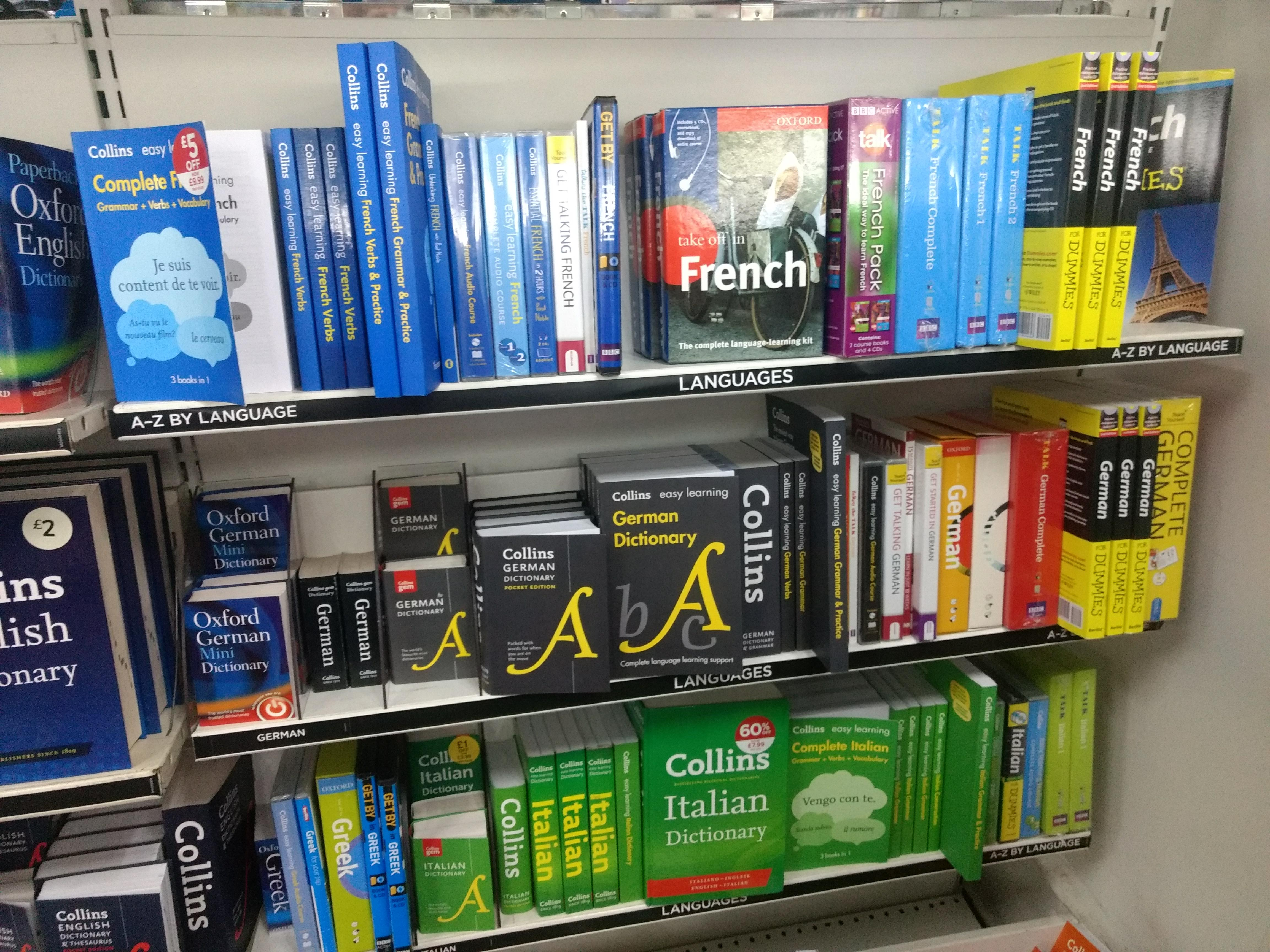 Books at W.H. Smith, Enfield, London.